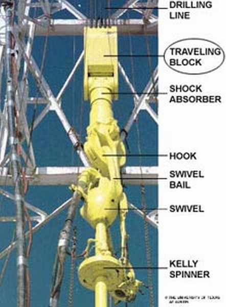 Traveling block, swivel, kelly spinner